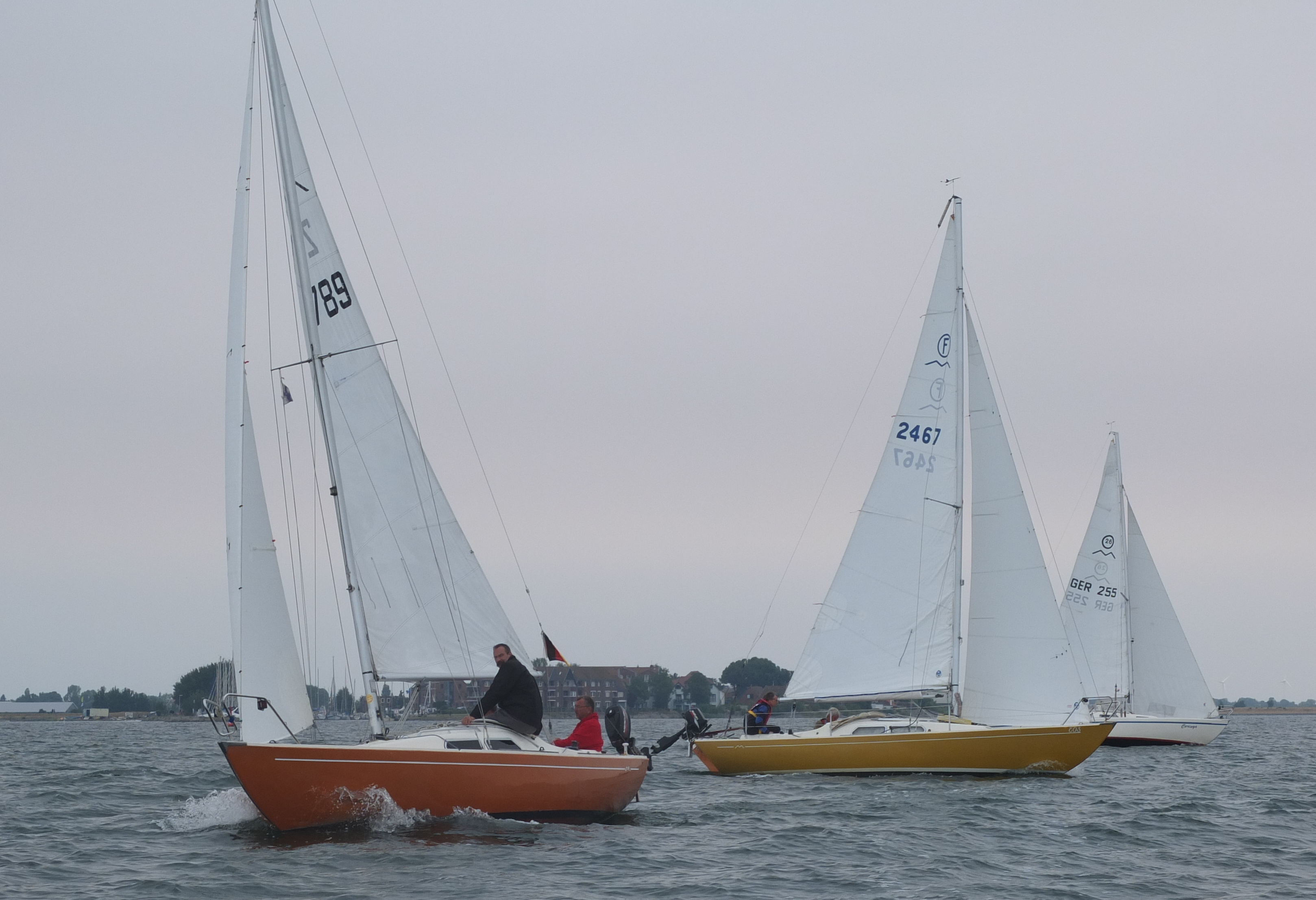 Picture taken from SWE 1870 at the annual "IF-Boot-Treffen 2015 in Lemkenhafen auf Fehmarn".